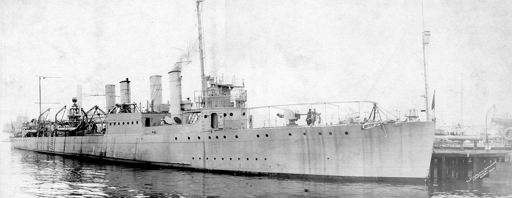 The U.S. Navy destroyer USS Welles (DD-257) at Boston, Massachusetts (USA), on 2 September 1919.